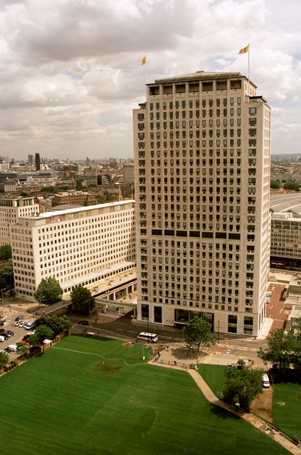 The Shell Centre, London, UK. Photo by Przemyslaw 'BlueShade' Idzkiewicz. Taken in June, 2004. Released under cc-by-sa license.